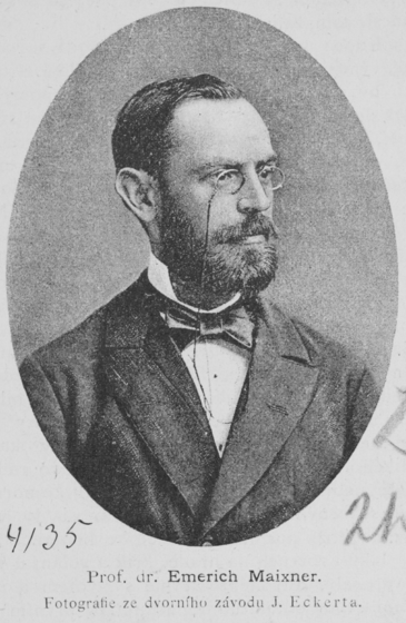 Photograph of Emerich Maixner, Czech professor of medicine.